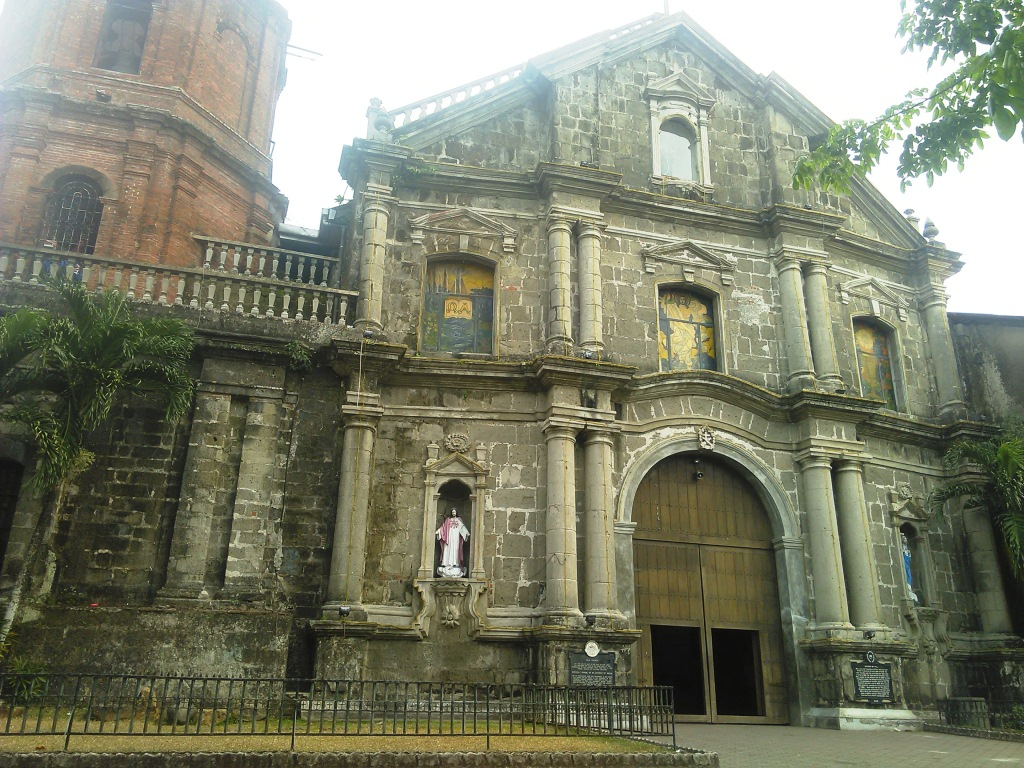 Facade of the San Antonio de Padua Parish in Pila, Laguna